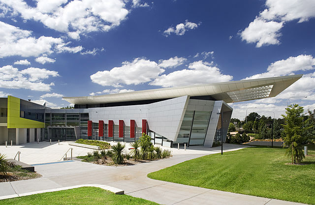 Campbelltown Arts Centre, photo by William Rethmeier. Image courtesy Tanners Architects